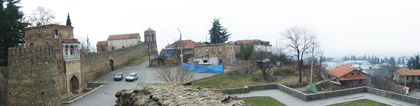 Telavi city centre